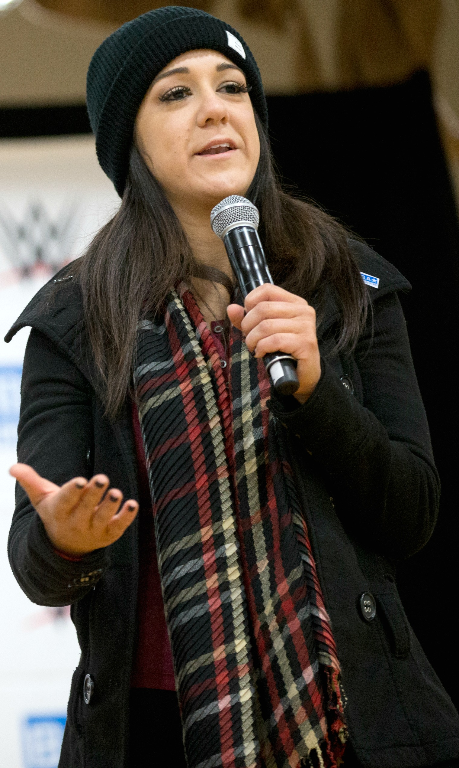 WWE Superstar Bayley giving an speech during a B.A. Star event in December 2016.